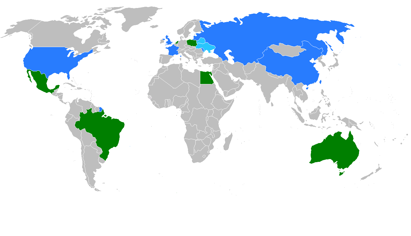 Map of the world showing the United Nations Security Council in 1946.